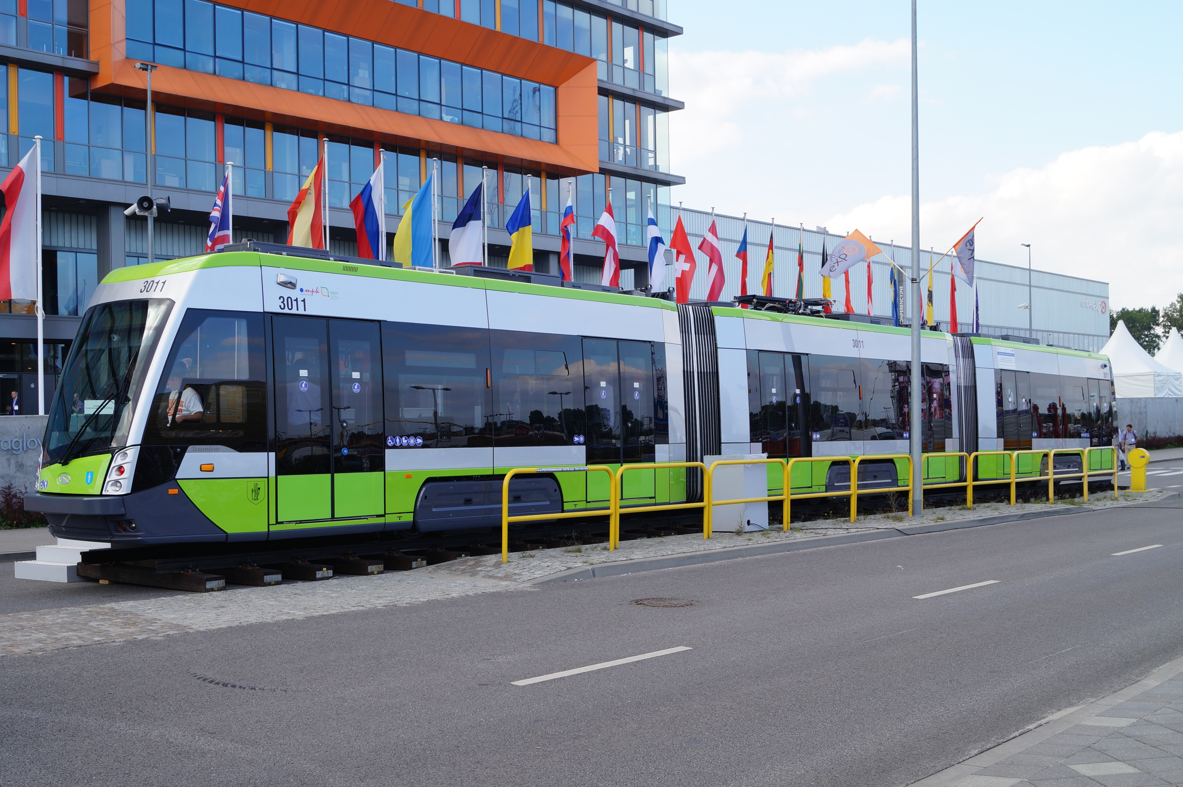 The making of this document was supported by Wikimedia Polska Association, within Wikigrant no. WG 2015-34. English | polski | +/− Tramwaj Solaris Tramino S111o dla Olsztyna wystawiany na Targach Trako 2015